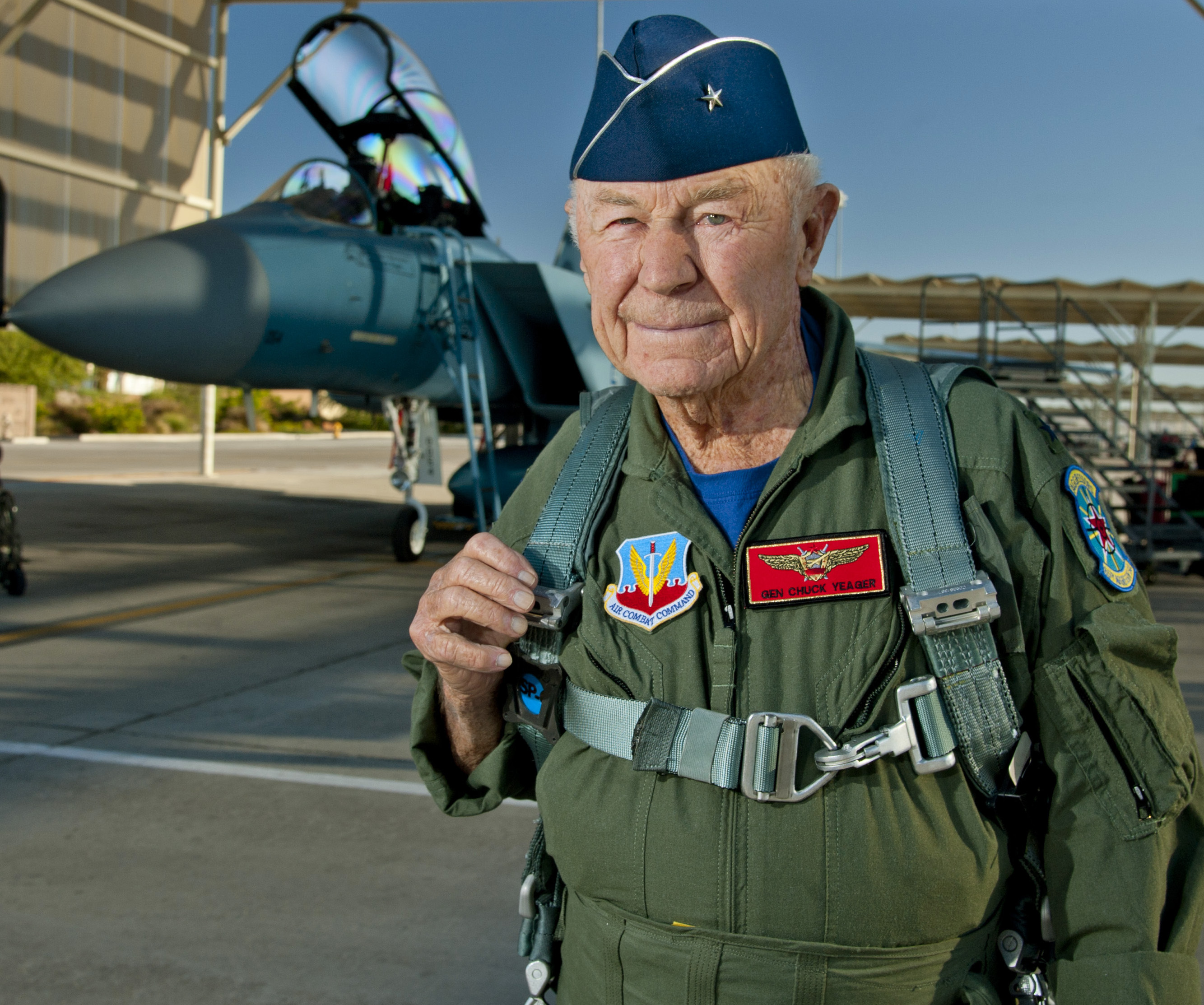 Retired Brig. Gen. Charles E. "Chuck" Yeager prepares to board an F-15D Eagle from the 65th Aggressor Squadron Oct. 14, 2012, at Nellis Air Force Base, Nev. In a jet piloted by Capt. David Vincent, 65th AGRS pilot, Yeager is commemorating the 65th anniversary of his historic breaking of the sound barrier flight Oct. 14, 1947, in the Bell XS-1 rocket research plane, named "Glamorous Glennis." Yeager was awarded the prestigious Collier Trophy for his landmark aeronautical achievement.